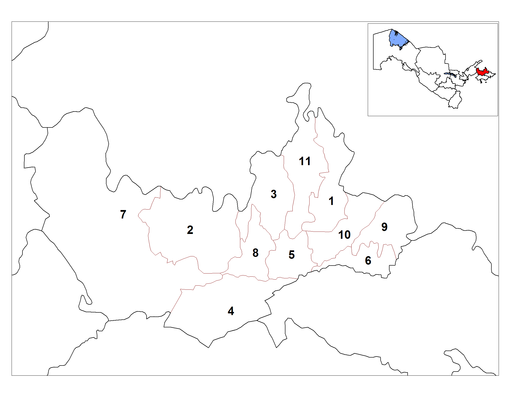 Map of the districts (tuman) of the province (viloyat) of Namangan in Uzbekistan.